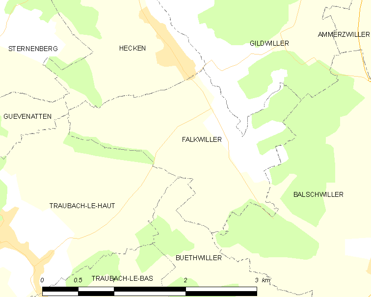 Map of French municipality